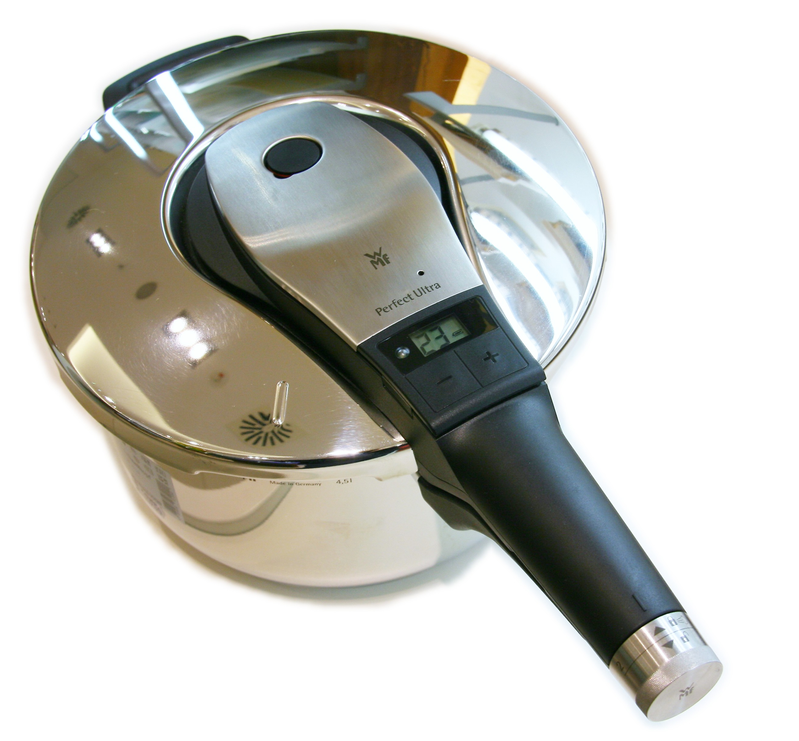 Pressure cooker 4.5 l Perfect Ultra manufactured by WMF